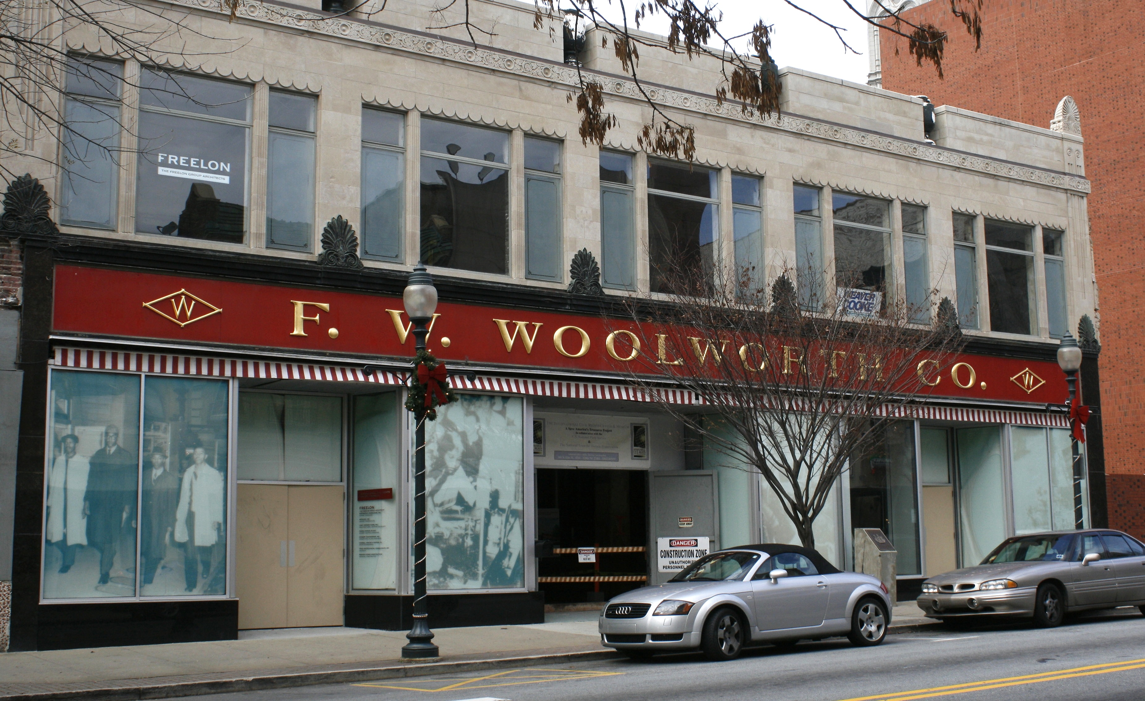 Former F. W. Woolworth Co. store in Greensboro, North Carolina, the site of a now-famous "sit-in" protest by black college students in 1960.